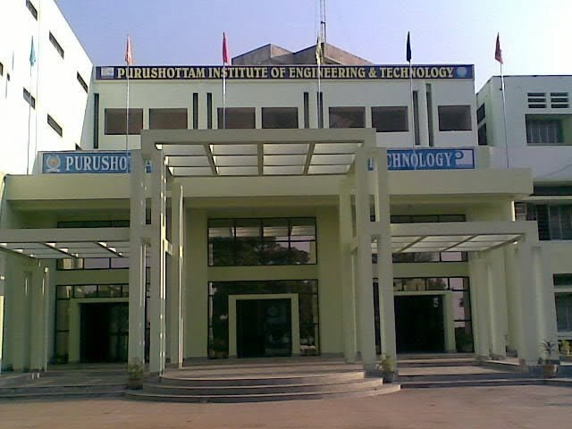 PIET Rourkela Front